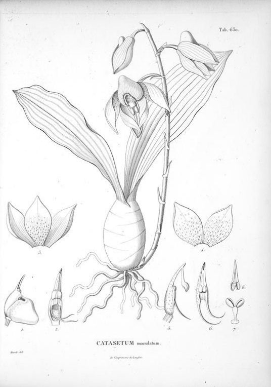 Illustration of Catasetum maculatum